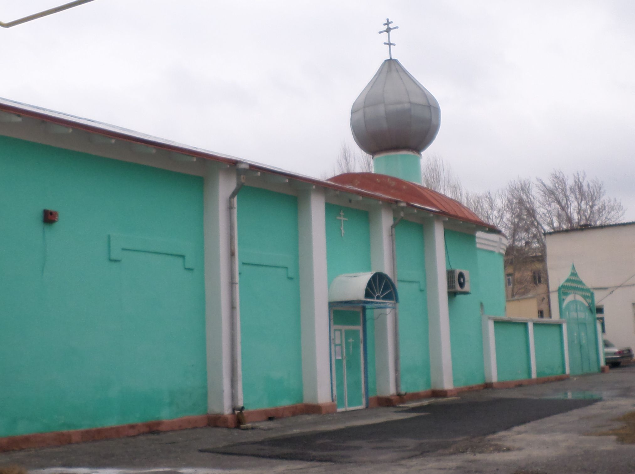 Church in Bekobod